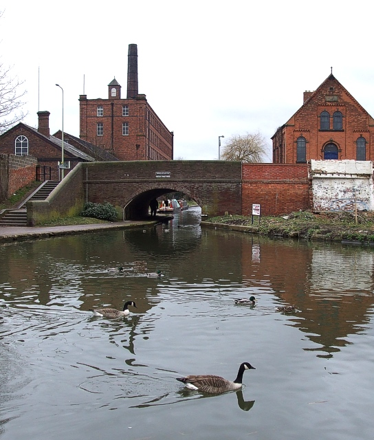 Fazeley Junction Canada Geese in the foreground and Mallard ducks behind them swim nonchalantly about on this canal junction. Ahead, through the bridge the Birmingham & Fazeley Canal heads to Birmingham, off to the right the same canal heads off to join the Trent & Mersey Canal at Fradley Junction. To the left the Coventry Canal departs eastwards. However if you follow the B & F on the map from this point towards the T & M, about halfway to Fradley it gets called the Coventry Canal - see the note* below. The bridge, mill and chapel seen here are all in the adjacent square to the south. Note: The first part of the section from Fazeley to Fradley is the B&F, however, rather confusingly, the second, northern, half is called the Coventry Canal - this is due to historical ownership - see Coventry_Canal